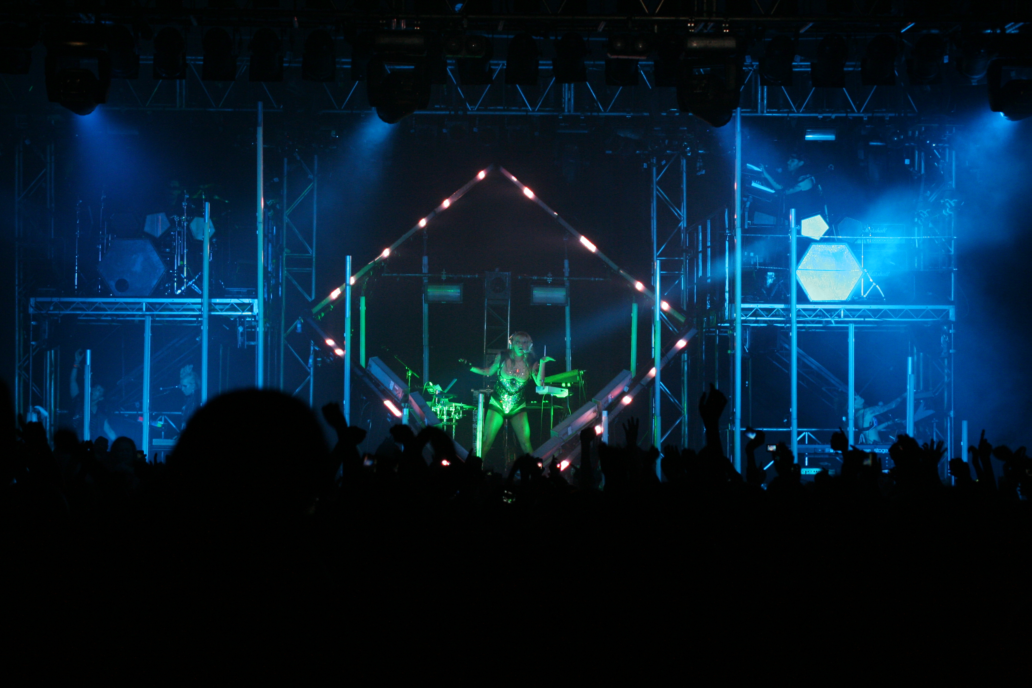 Kesha Hordern Pavilion Australia